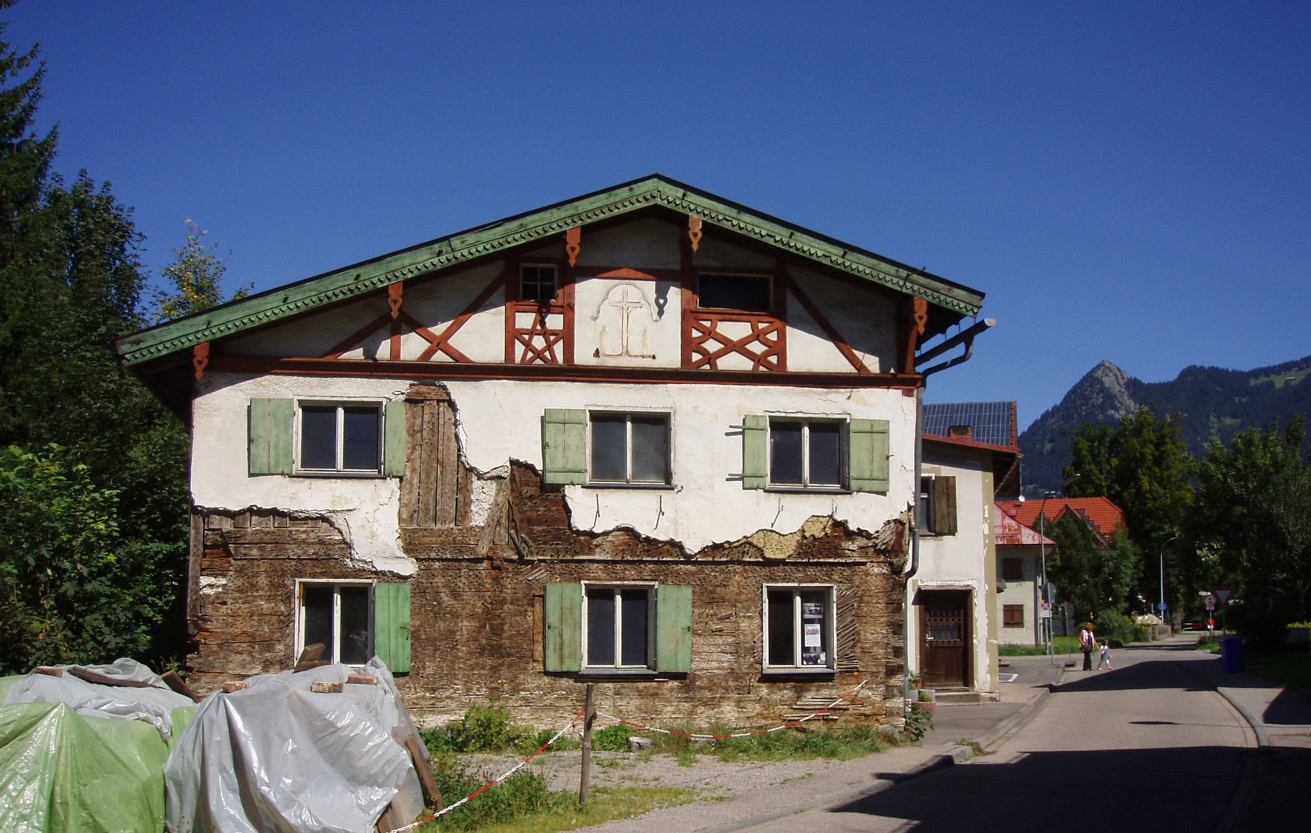 Möggenried-Haus, Sonthofen